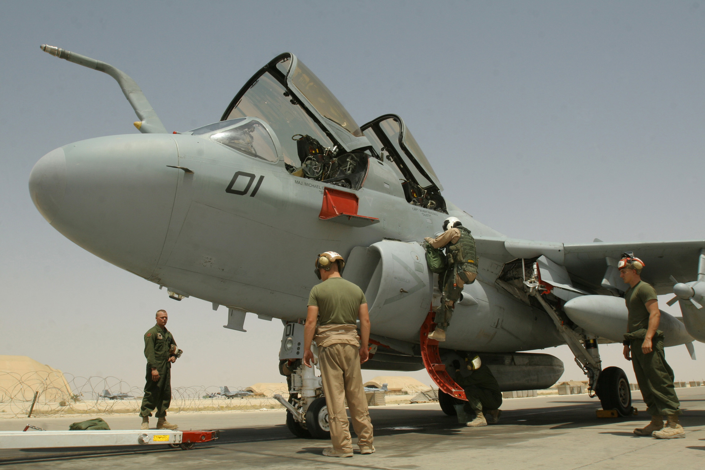 AL ASAD, Iraq (June 18, 2006) - Powerline division Marines surround an EA-6B Prowler belonging to Marine Tactical Electronic Warfare Squadron 2, Marine Aircraft Group 16 (Reinforced), 3rd Marine Aircraft Wing, during the jet's recovery process at Al Asad, Iraq, June 18. The division's Marines are responsible for preflight and postflight inspections, engine maintenance, external and internal fuel system maintenance, as well as acting as the plane captains for the aircraft.